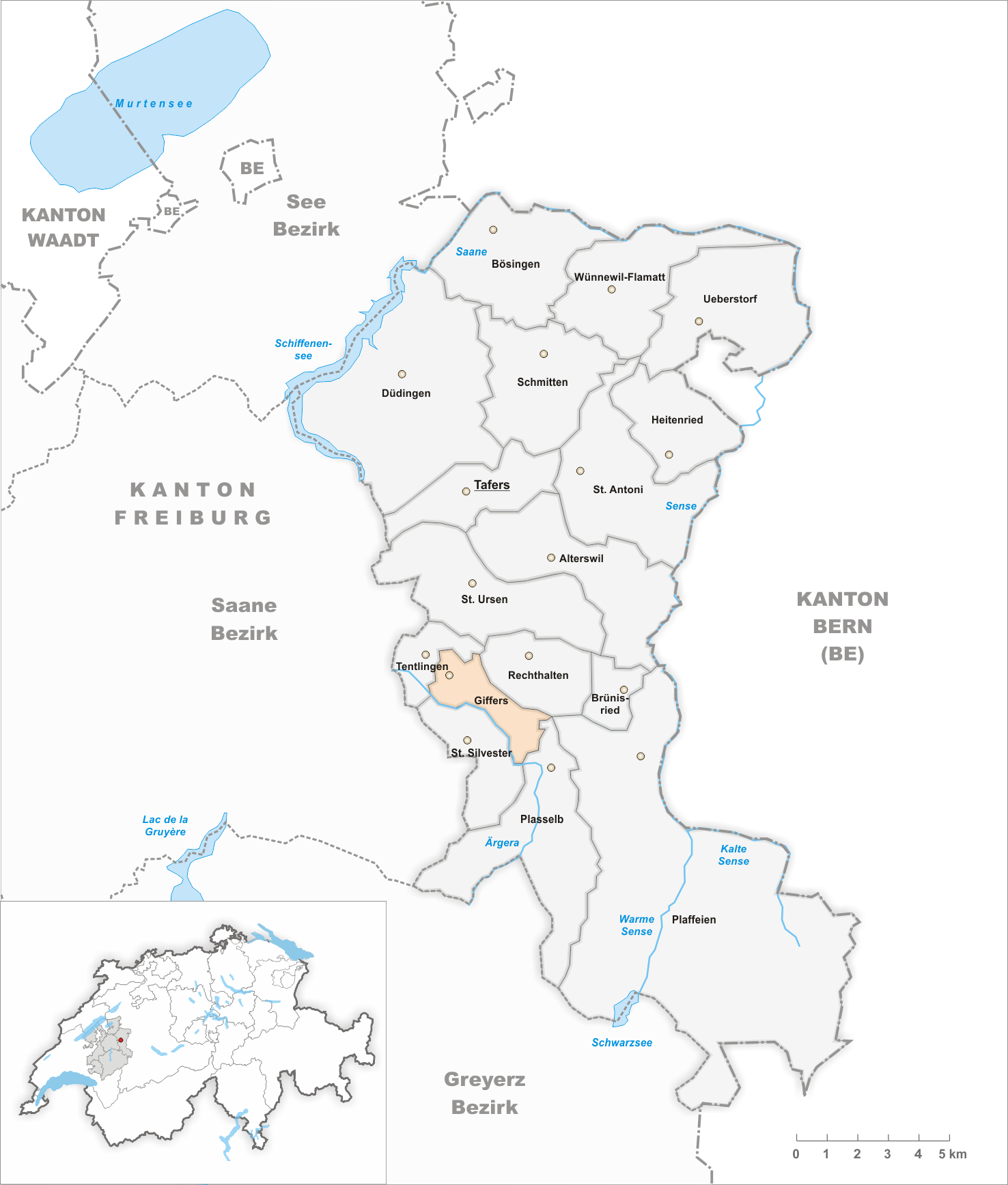 Municipality Giffers